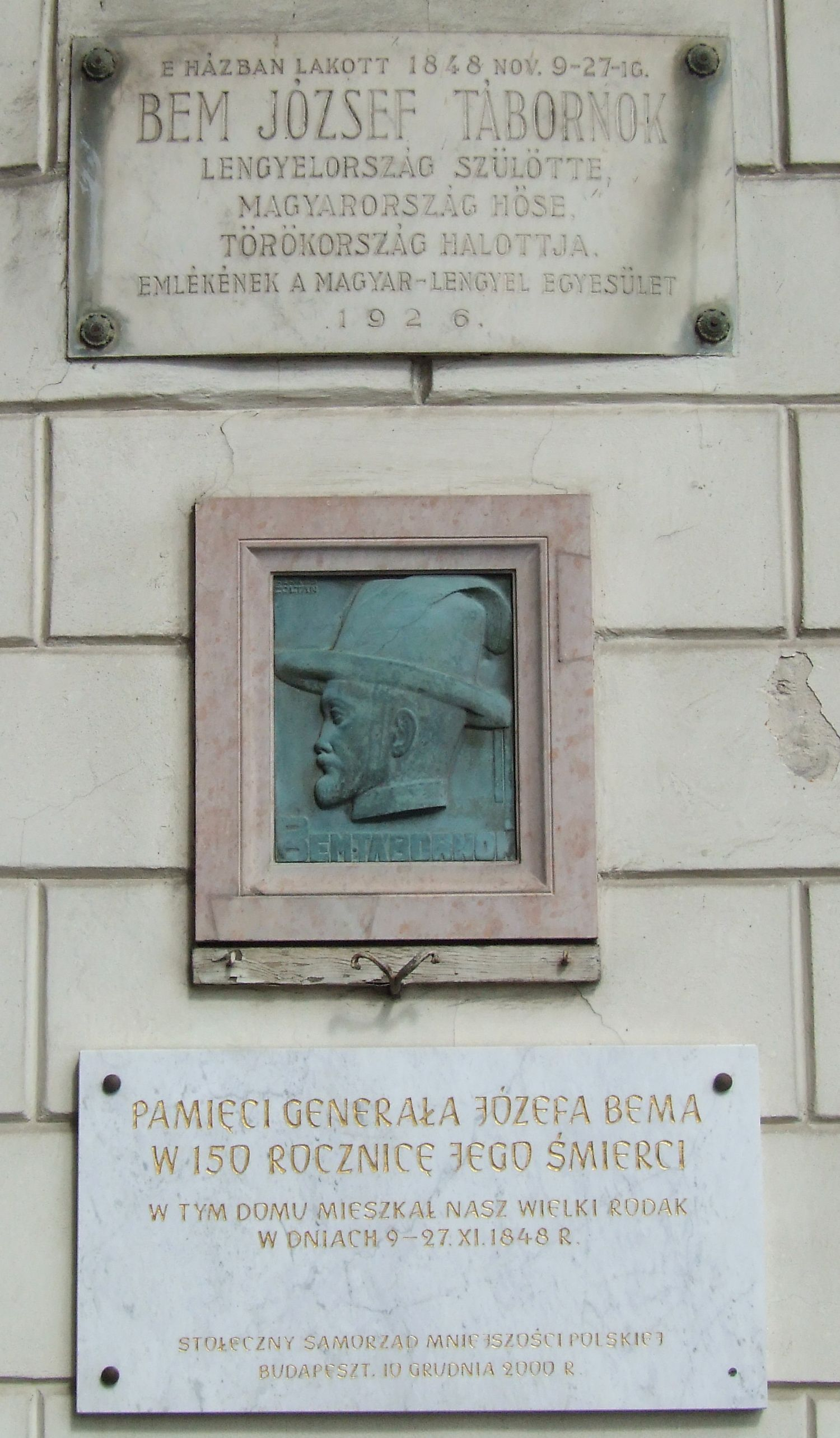 Józef Bem commemorative plaques in Budapest District V, Akadémia Street No 1.